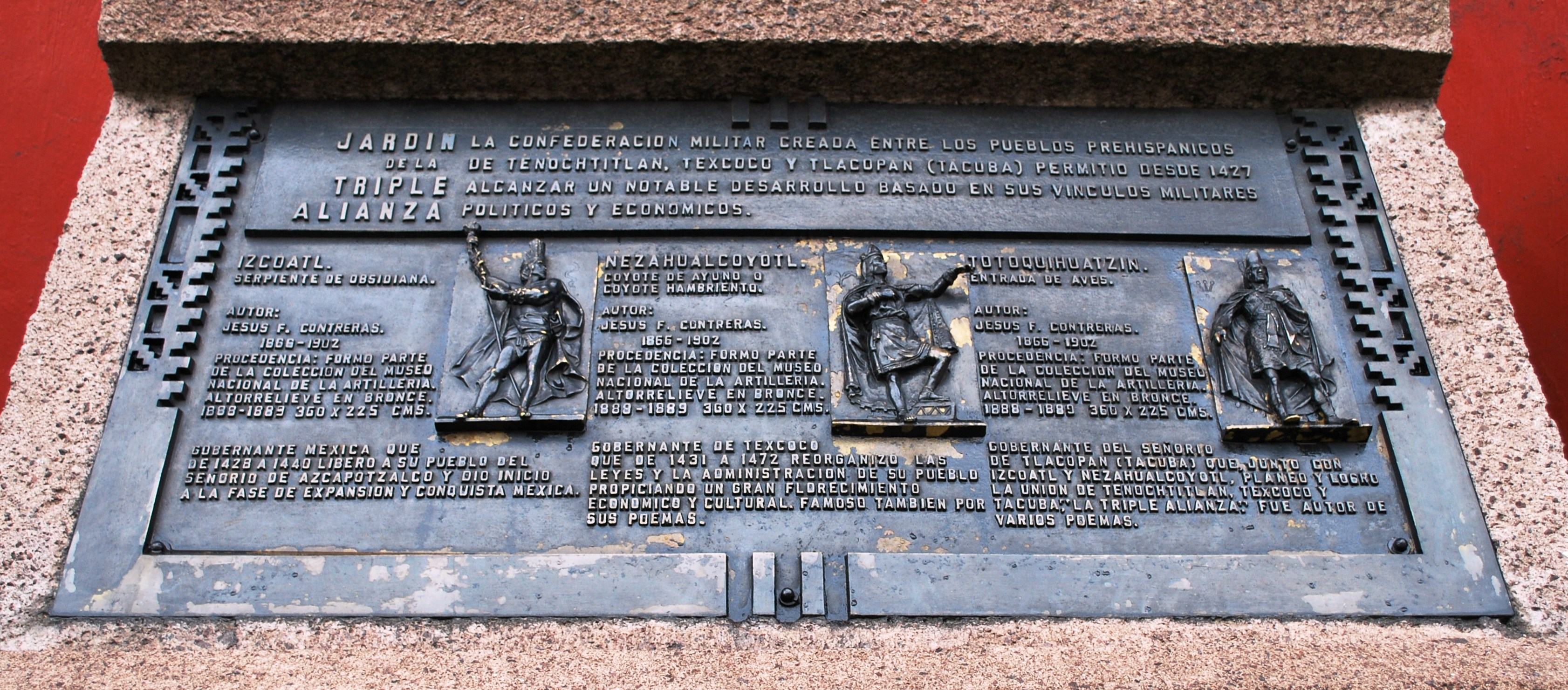 Plaque for the bronze casting of the three chiefs who formed the Aztec Triple Alliance. Location : Garden of the Triple Alliance, Filomeno Mata street, historical center of Mexico City.